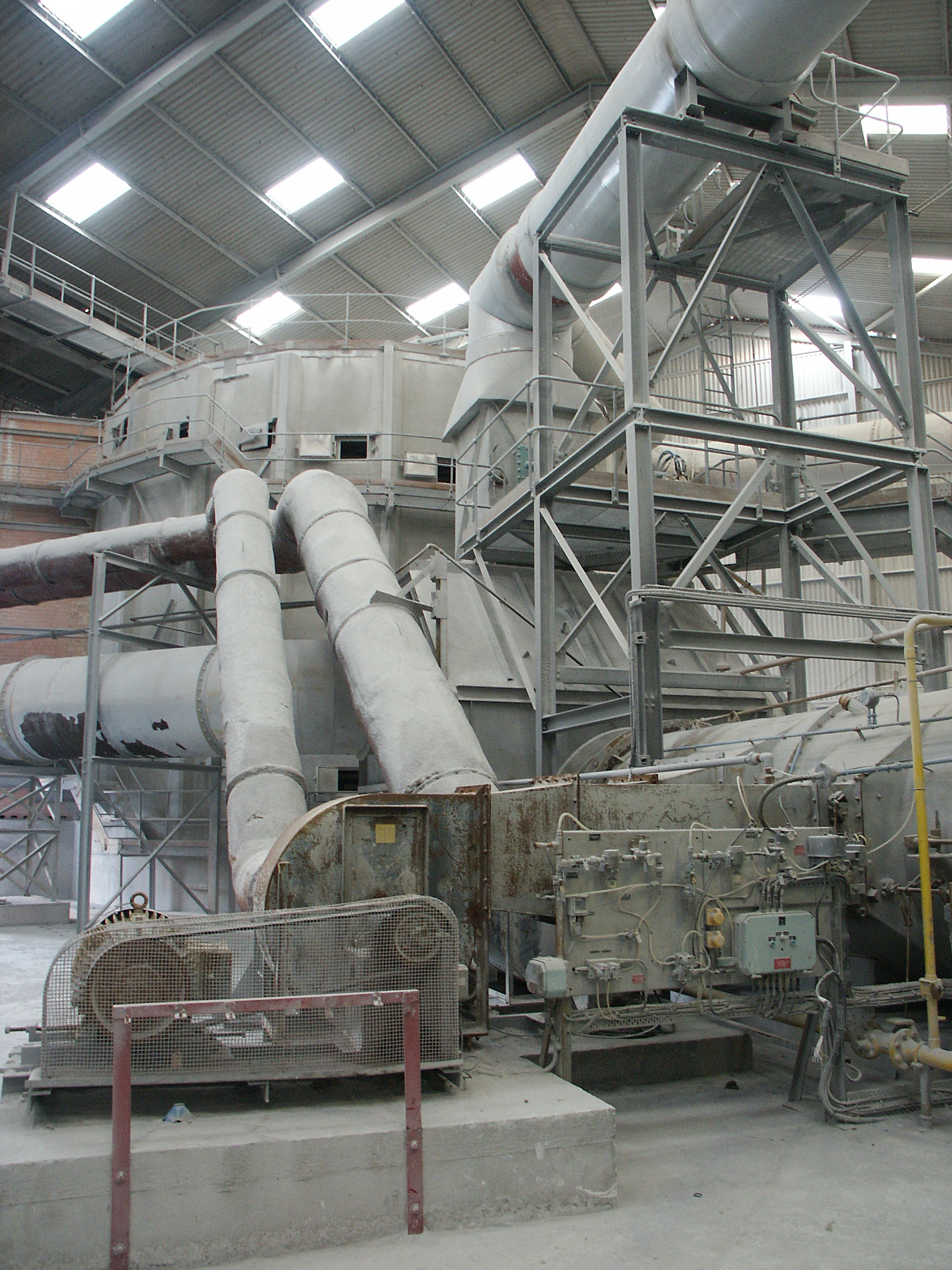 A large industrial kaolin dryer, constructed circa 1973, standing behind it's furnace, which was latterly augmented by a Combined Heat & Power Plant (CHP plant). The inspection doors for each layer of trays can be seen, as can the feed conveyor to the upper left. The large diameter duct belongs to the CHP plant, which replaced the furnace on the lower right, but was retained for redundancy.